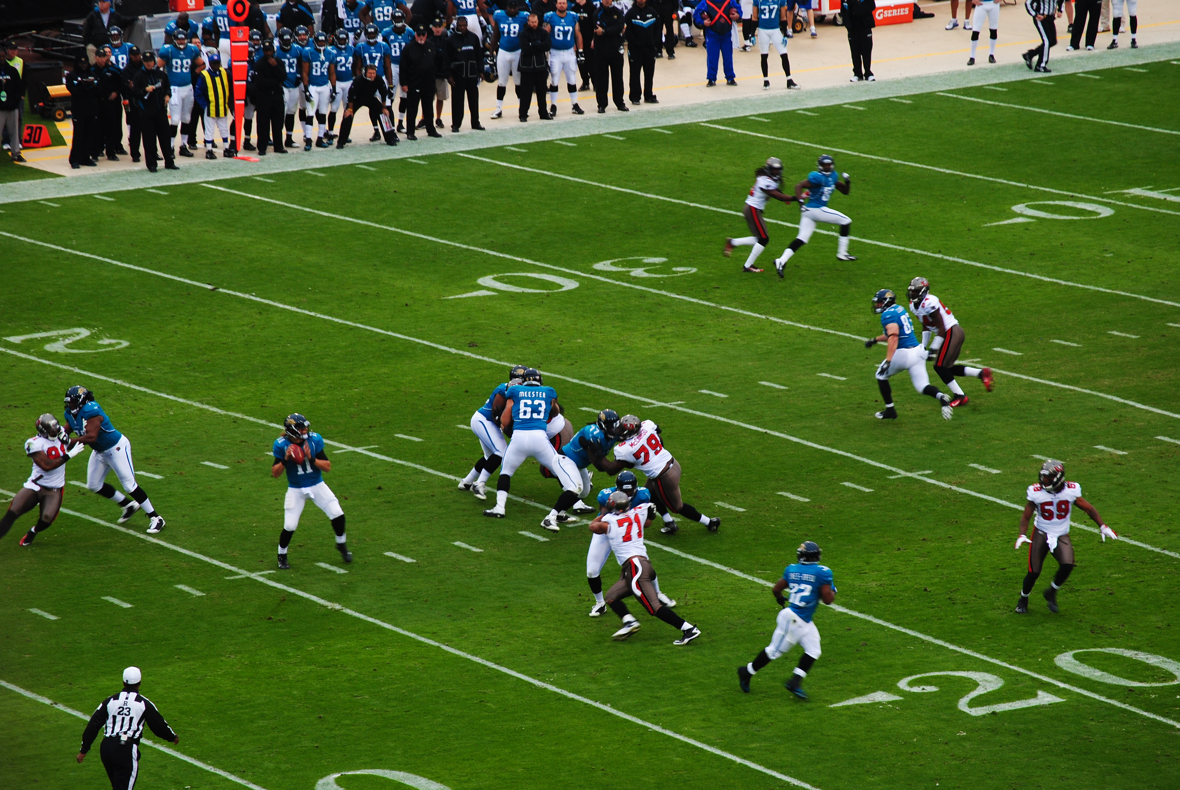 Jaguars vs Buccaneers 12/11/2011